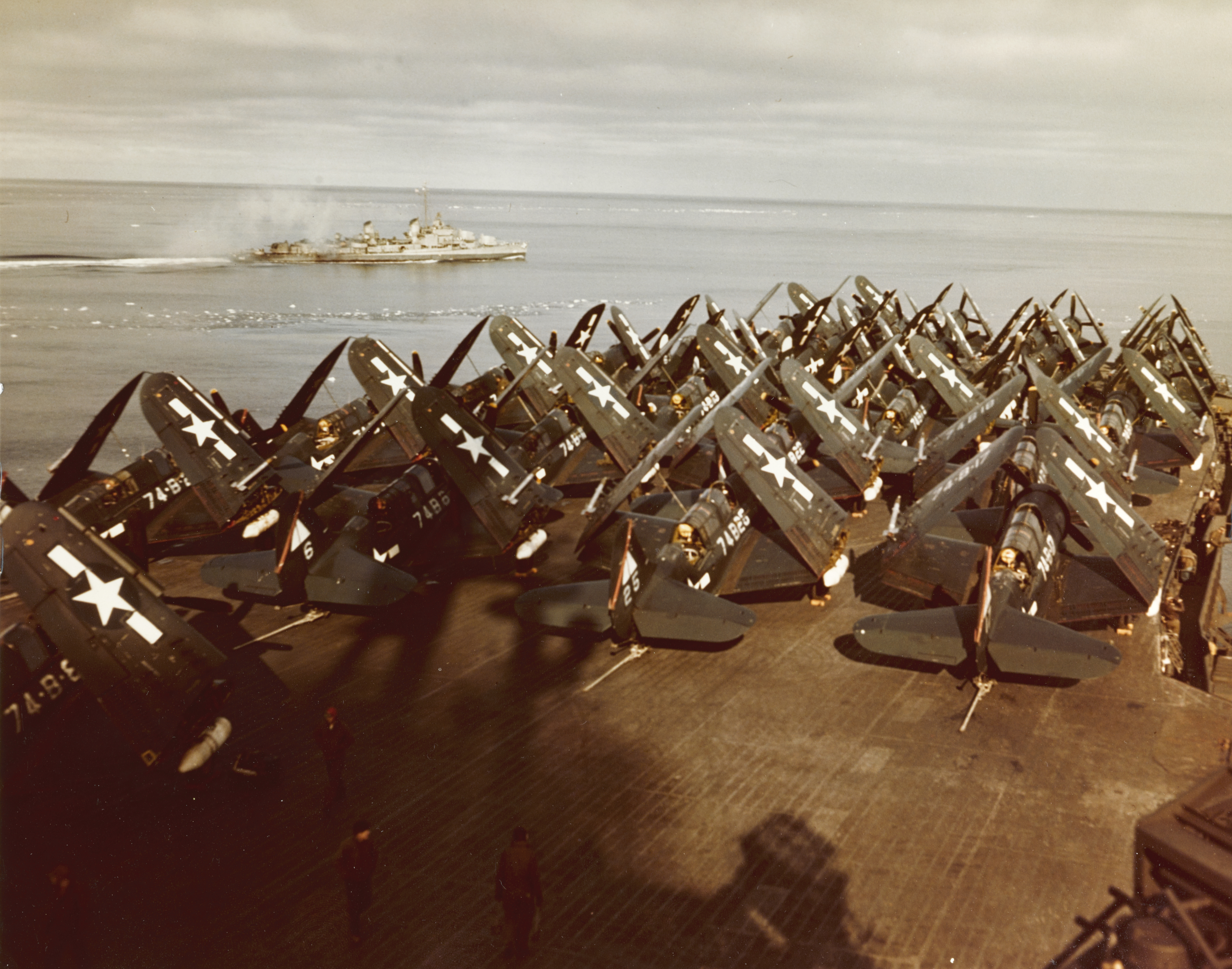 The U.S. Navy aircraft carrier USS Midway (CVB-42) noses through scattered sea ice in March 1946, during her Arctic experimental cruise ("Operation Frostbite"). Photographed looking forward from the carrier's island, with Curtiss SB2C-4E/-5 Helldiver and Vought F4U-4 Corsair planes of Carrier Air Group 74 (CVBG-74) parked on her flight deck. The Helldivers visible were assigned to Bombing Squadron 74 (VB-74) "Bomb-a-Toms". A Gearing-class destroyer is steaming past in the background.